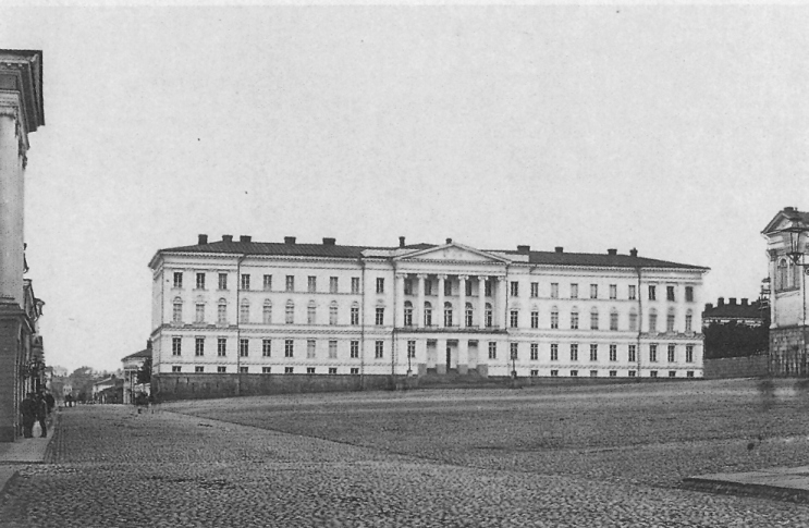 Photograph of the Main Building of Helsinki University in ca. 1870.